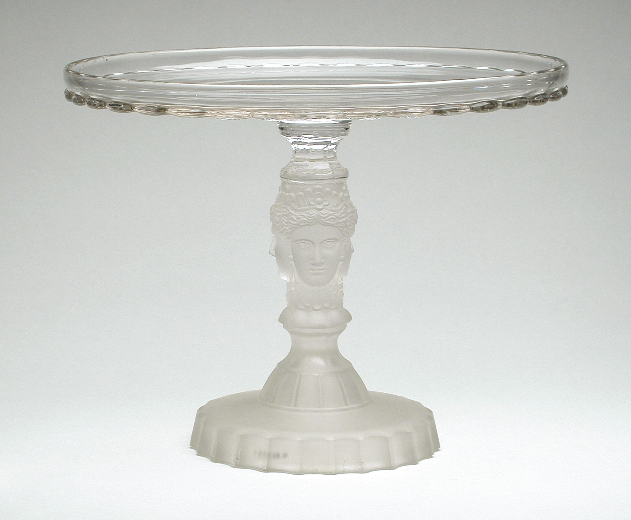 United States, 1878-1890 Furnishings; Serviceware Pressed glass Mrs. Fred Hathaway Bixby Bequest (M.62.8.1) Decorative Arts and Design